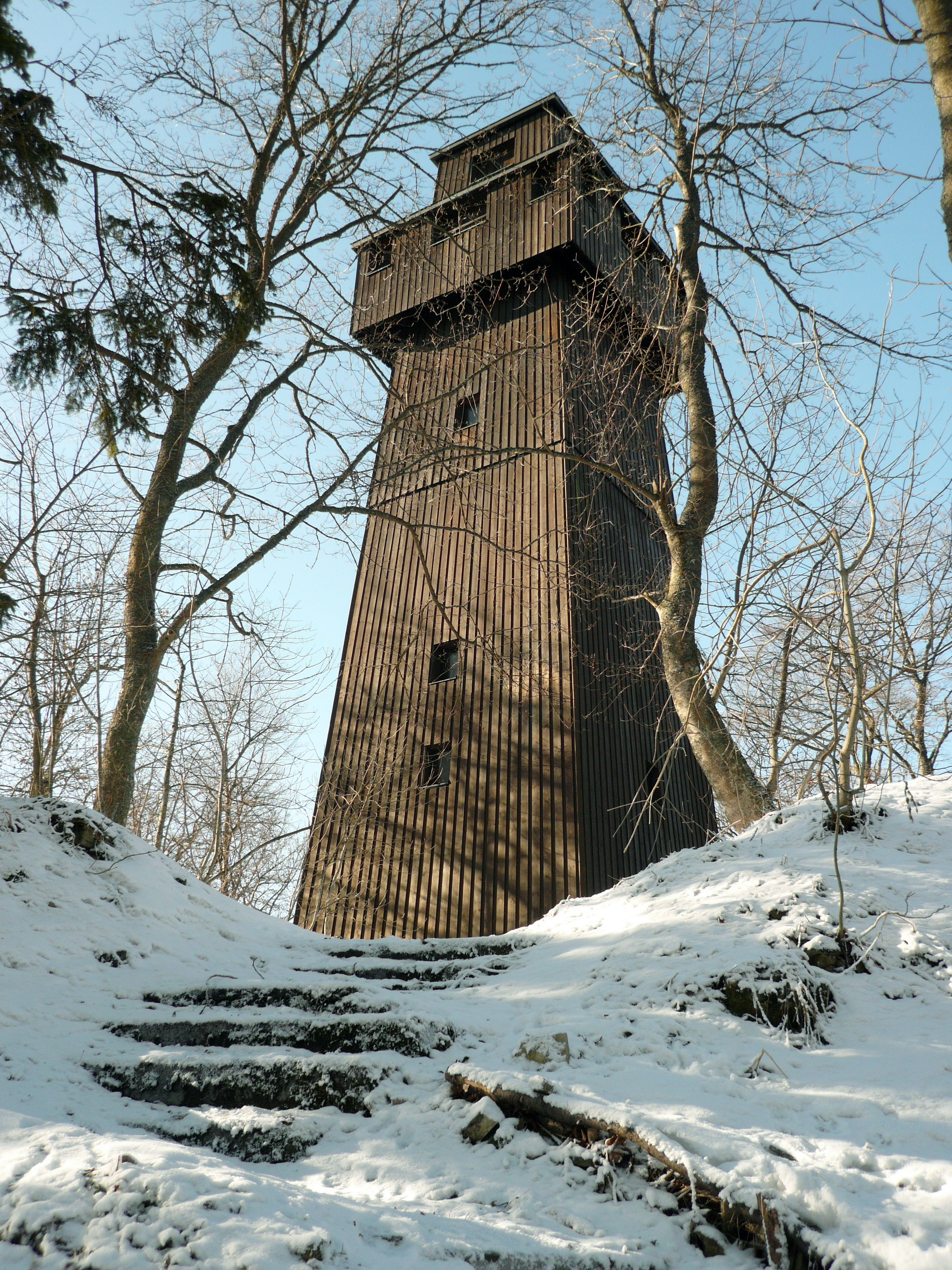 Wooden tower on mountain Lupfen, Baden-Wuerttemberg